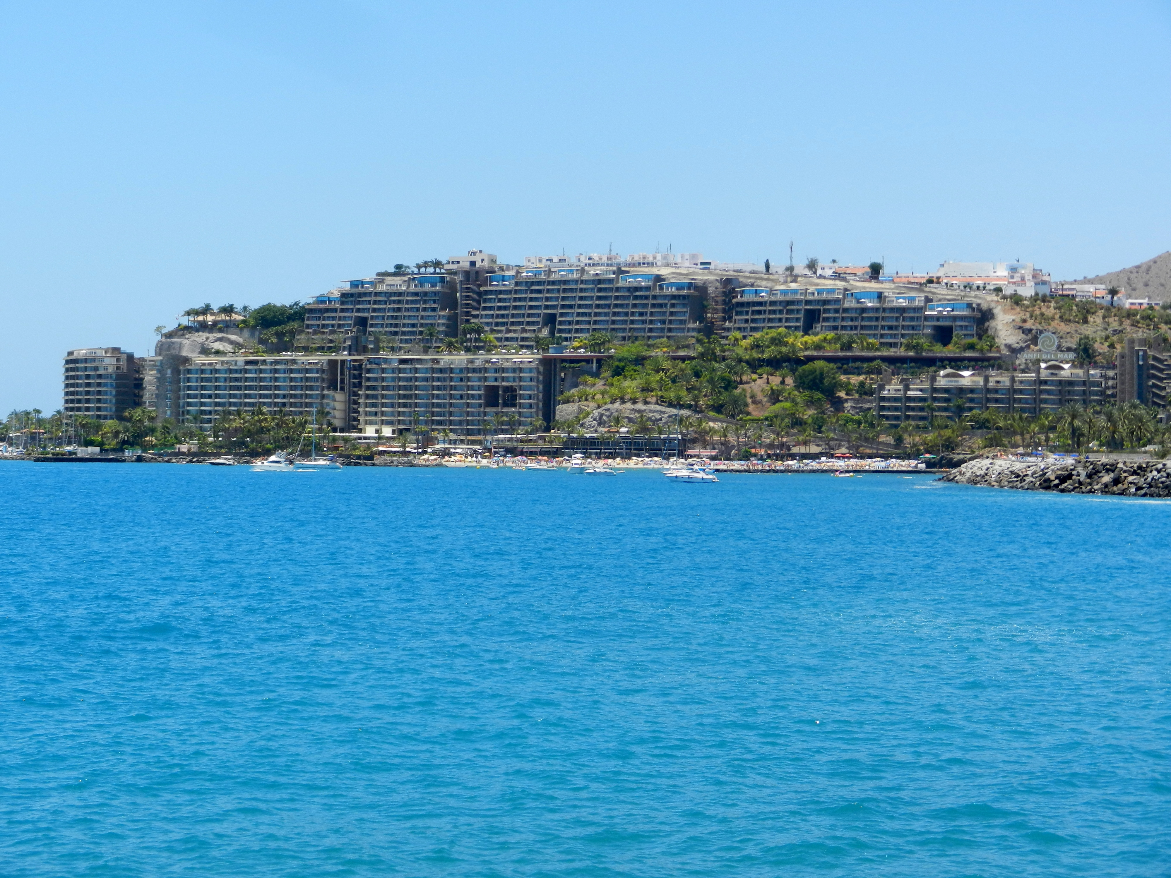 Anfi del Mar